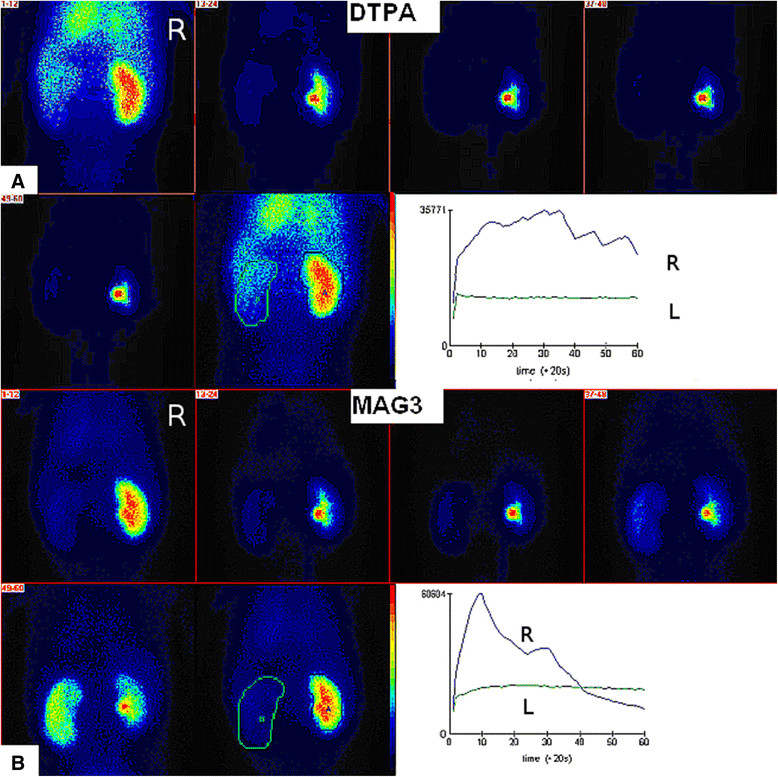 Renal imaging in posteroanterior position (R = right kidney, L = left kidney). A. 99mTc-DTPA renal scintigraphy shows vascular bed over the left kidney without visualization of the parenchyma with practically afunctional renographic curve of the same kidney. B. 99mTc-MAG3 scintigraphy shows very pale left kidney becoming increasingly better visualized later. Renographic curve of the left lidney shows obstruction over the third phase of the renogram.